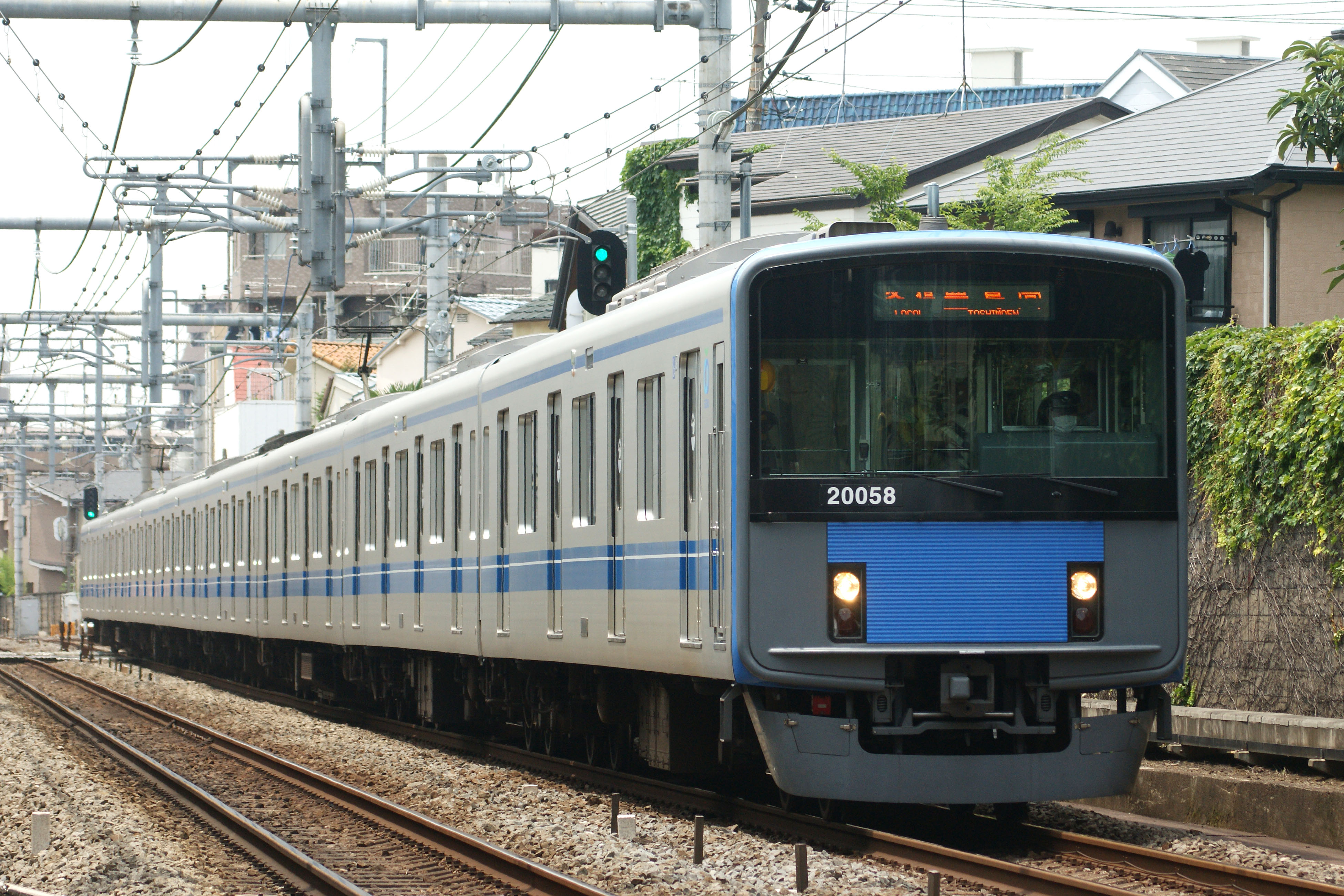 Seibu 20000 series EMU 8-car set 20158 on the Seibu Ikebukuro Line between Ikebukuro and Shiinamachi stations